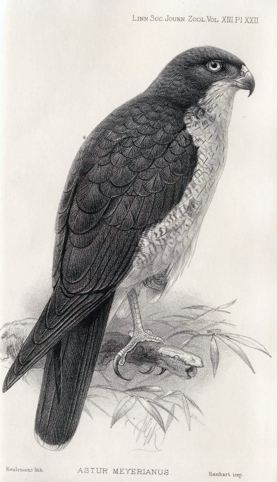 Astur (Accipiter) meyerianus